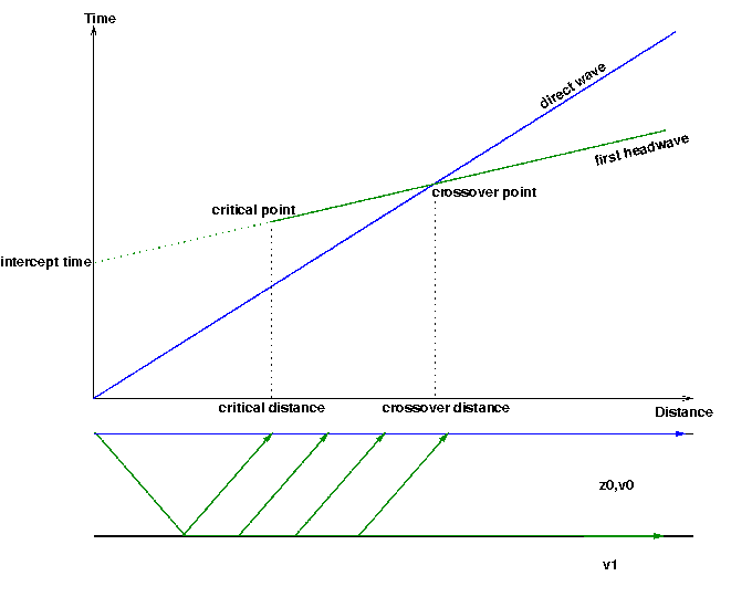 Traveltime curves of the direct (blue) and critically refracted (green) wave. At the bottom the according ray paths are displayed